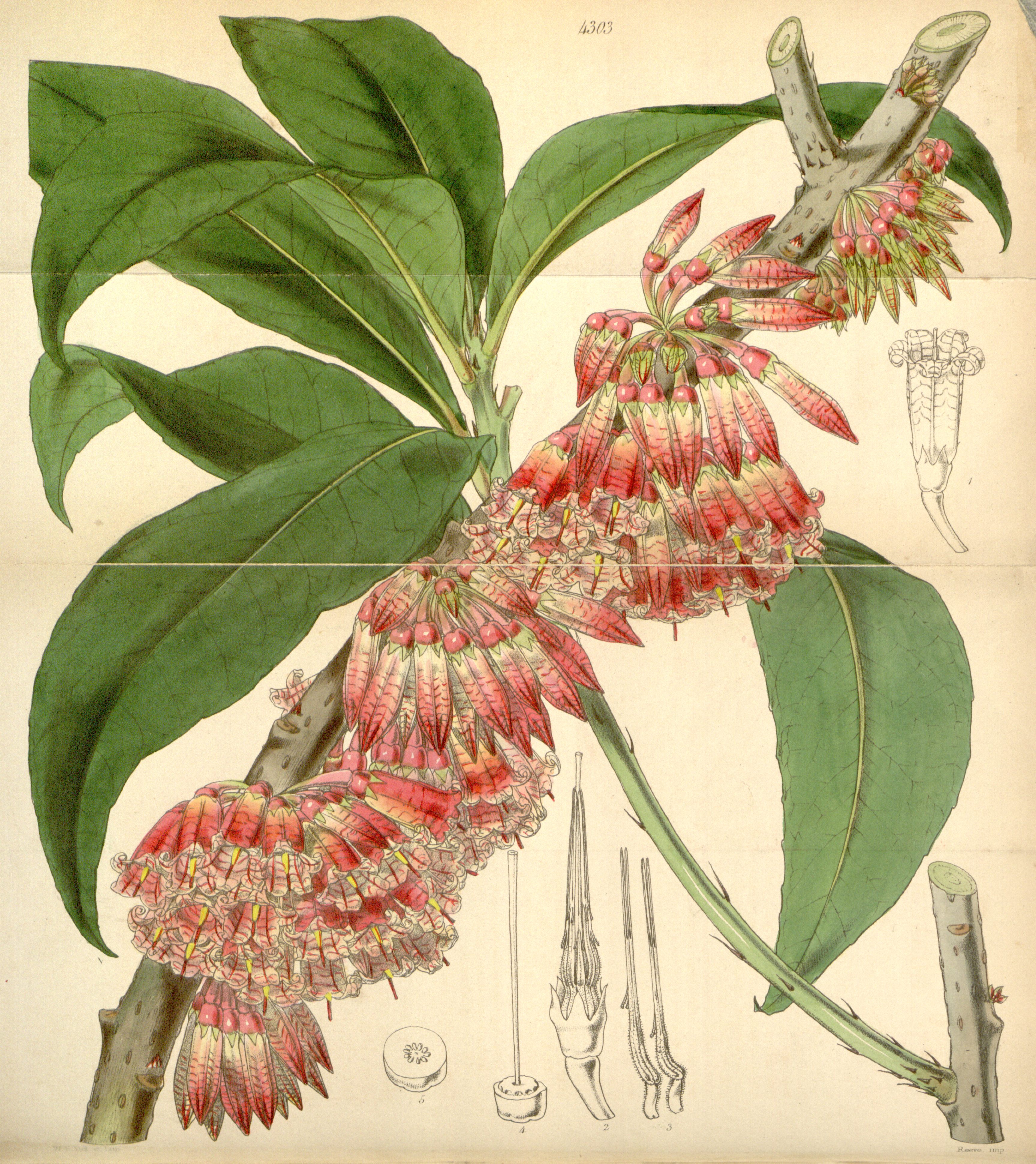 This is a plate from Curtis's Botanical Magazine, Volume 73.